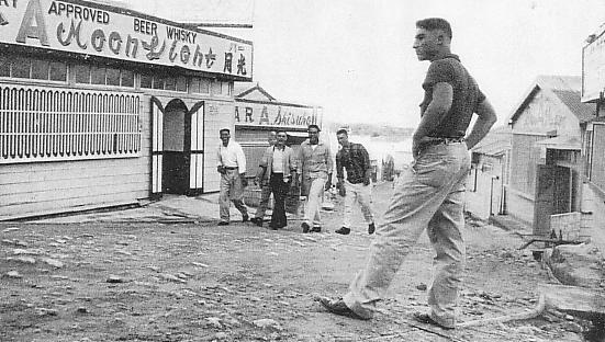 Koza Yaejima Street(Red-light district) circa 1955